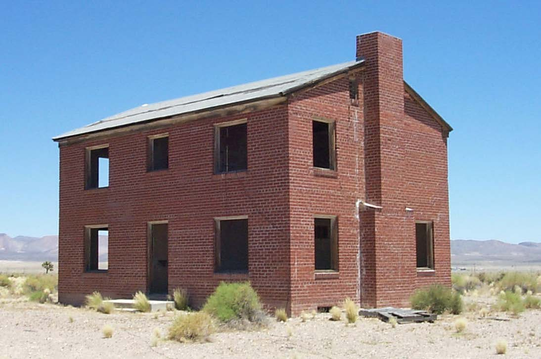 Nevada Test Site. Located 10,500 feet from Apple-2 ground zero, this two-story brick house was one of two identical structures erected for civil effects tests